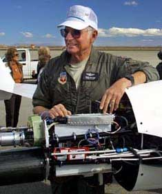 From [1]